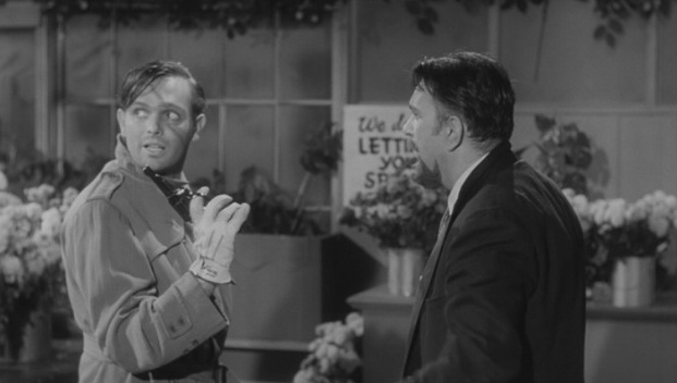 Charles B. Griffith as a robber in the public domain film The Little Shop of Horrors.